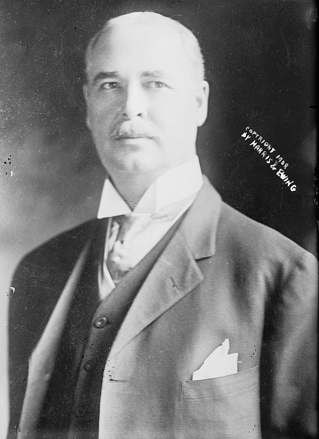 Col. George Radcliffe Colton, Gov. of Puerto Rico.